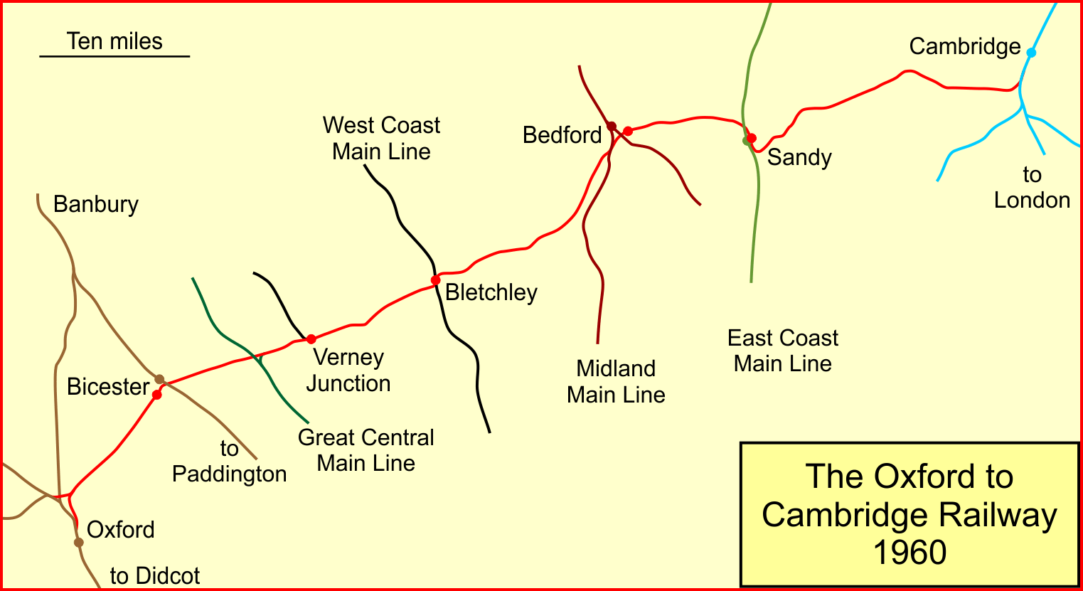 SYstem map of the Oxford to Cambridge railway line in 1960, before the downgrading process took effect